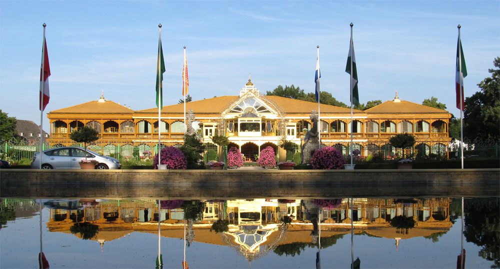 MERU (Maharishi European Research University) in Vlodrop Holland. Formerly a Franciscan monastery.